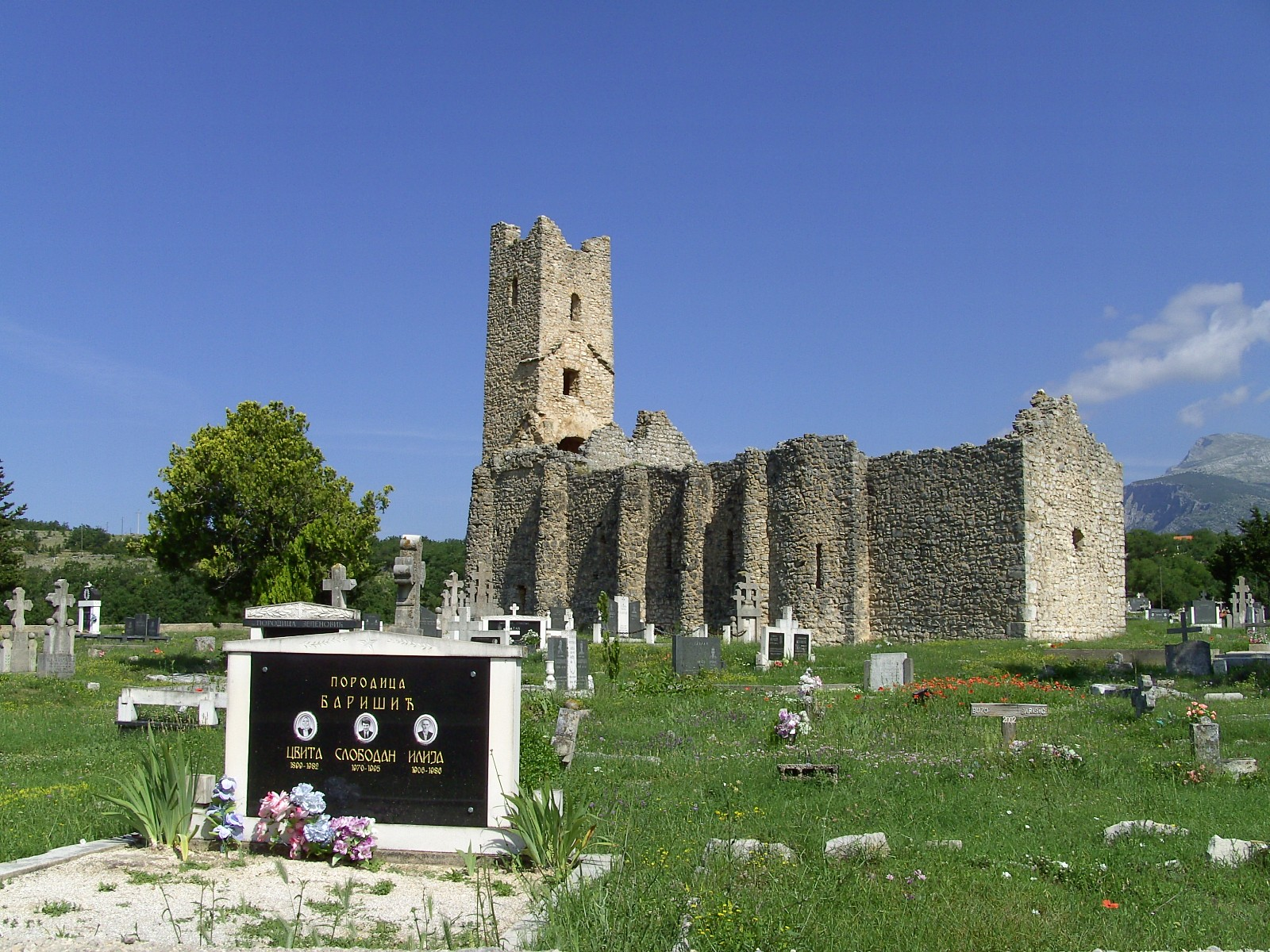 St. Spas church ruins near Cetina, Croatia